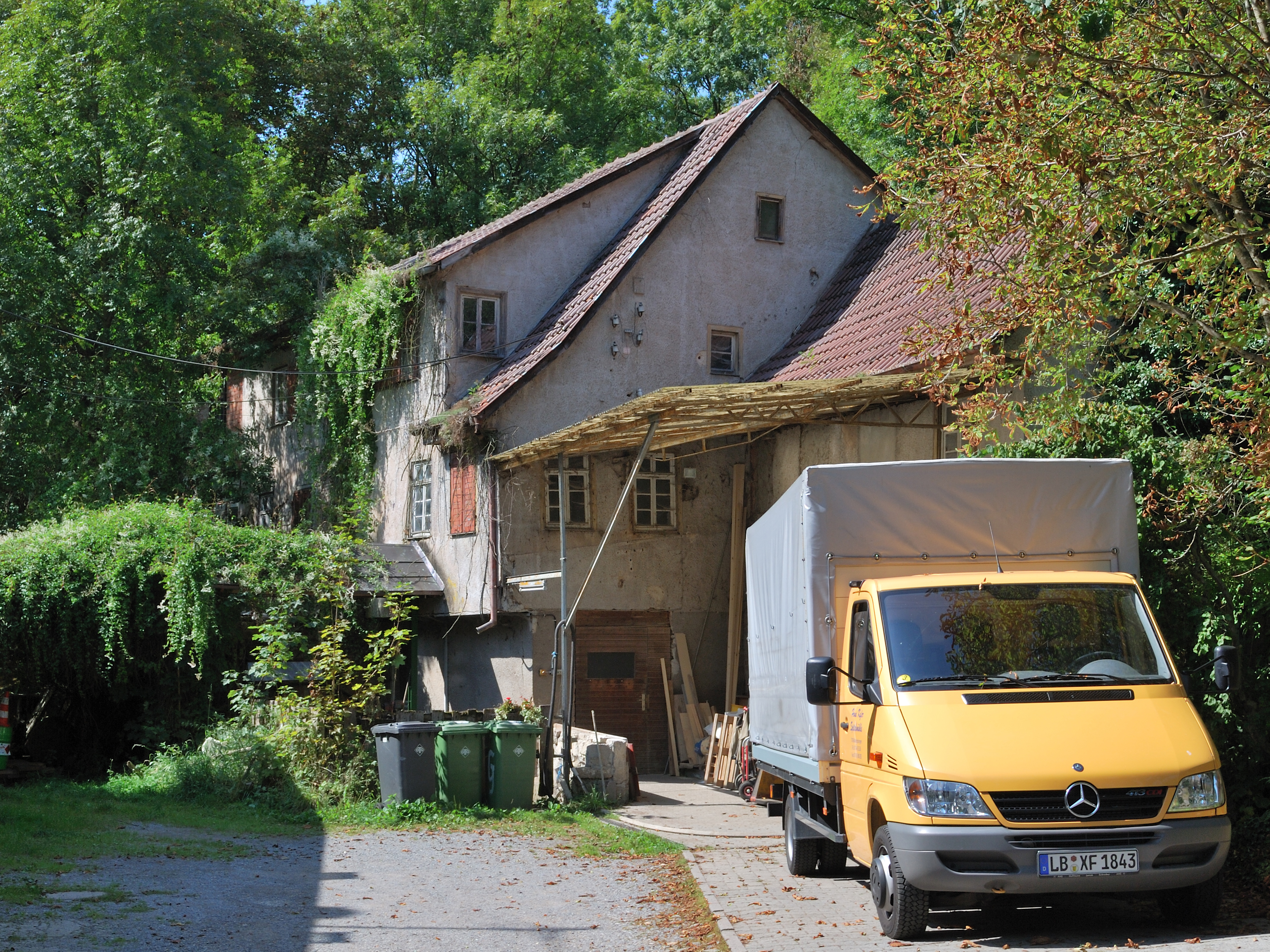 Spitalmühle, a water mill on the river Glems in Markgröningen in the federal state Baden-Württemberg in Southern Germany.